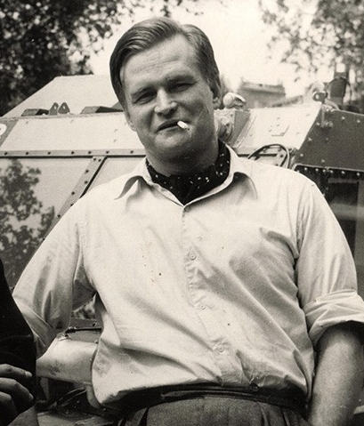 A photograph of Ben Carlin in Montreal in 1948.